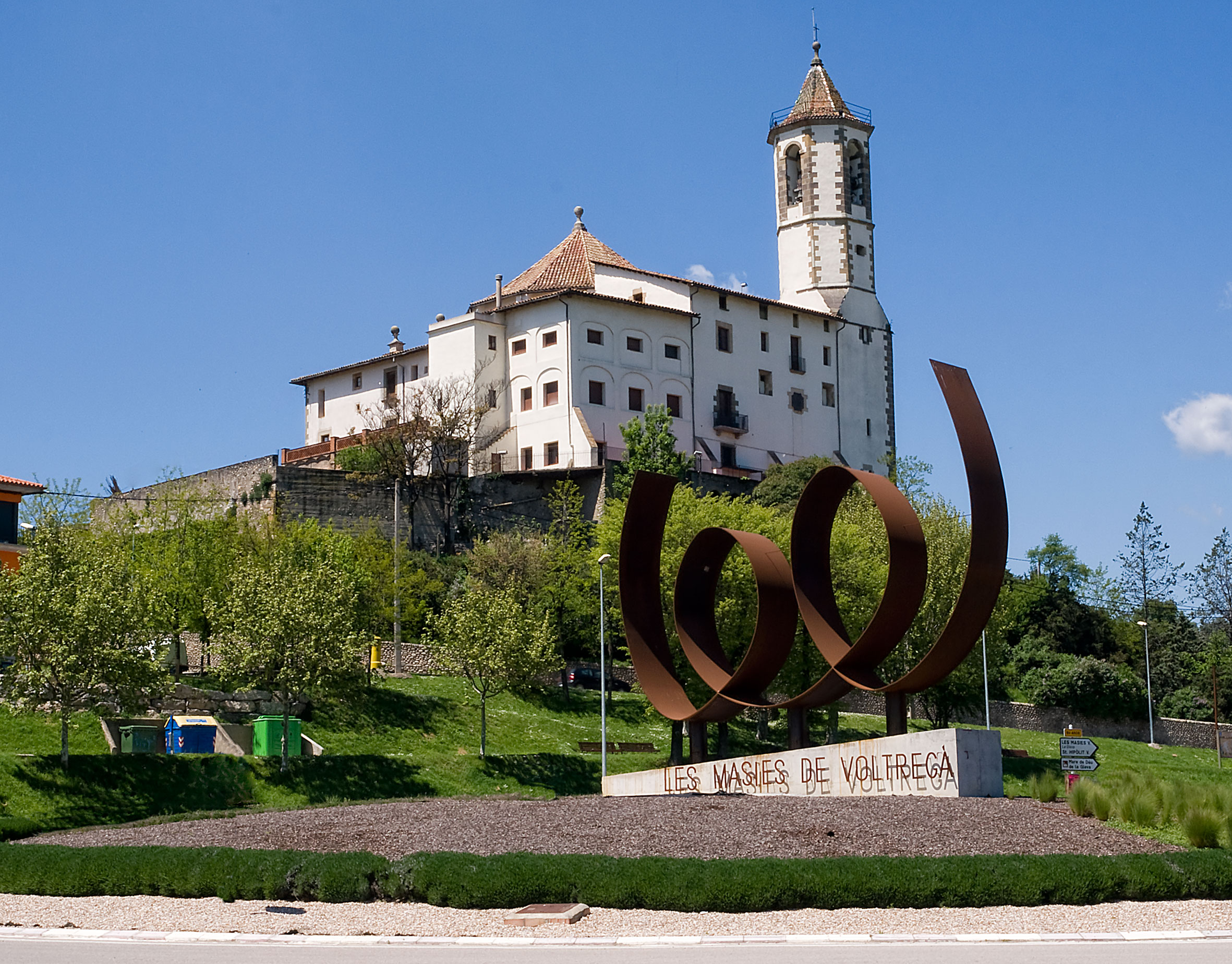 La Gleva sanctuary of Les Masies de Voltregà(Catalonia, Spain)